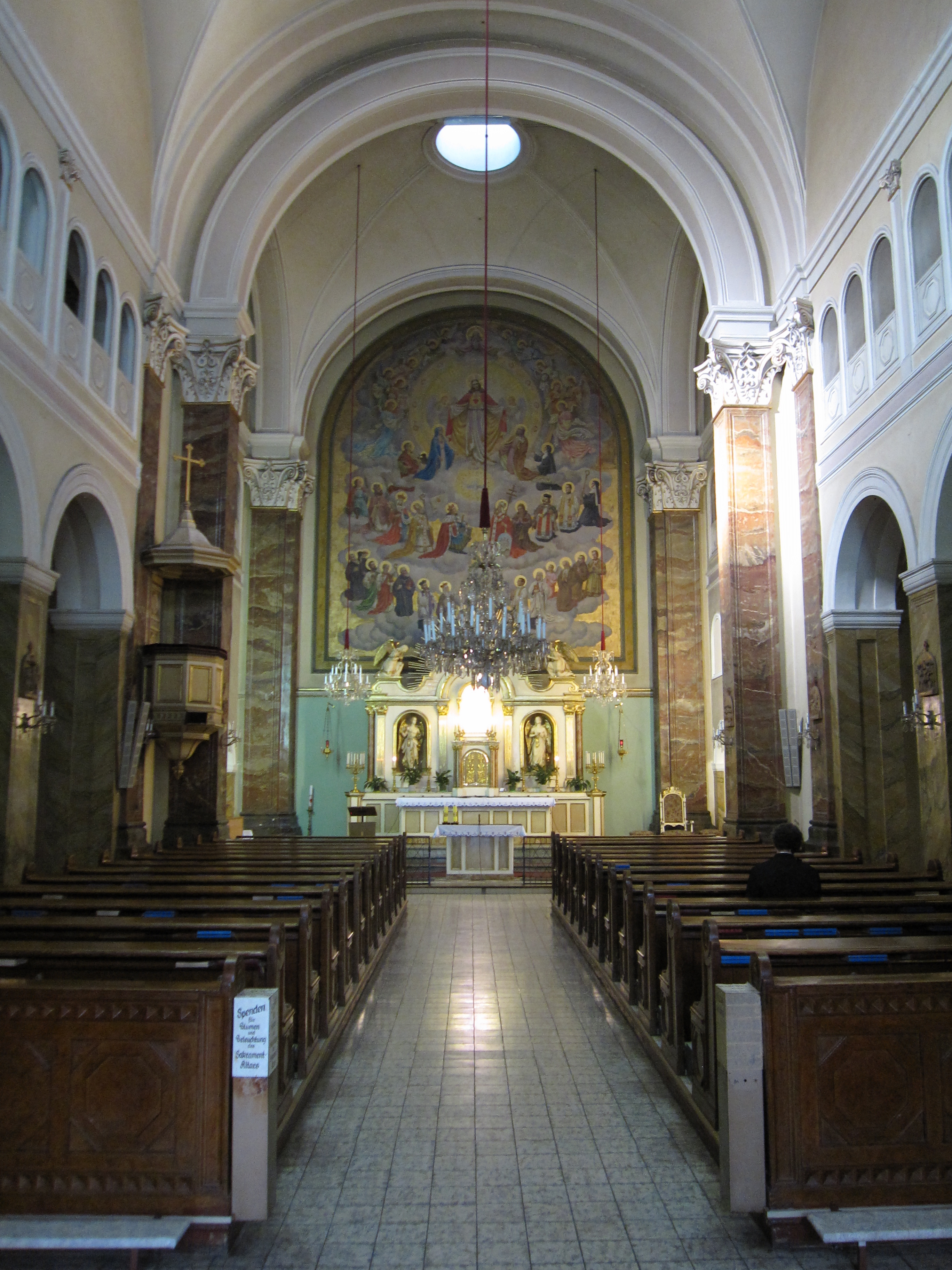 Interior of the Church of the Holy Saviour (Kirche zum Allerheiligsten Erlöser) at Rennweg 63, 63a in Landstrasse in Vienna.